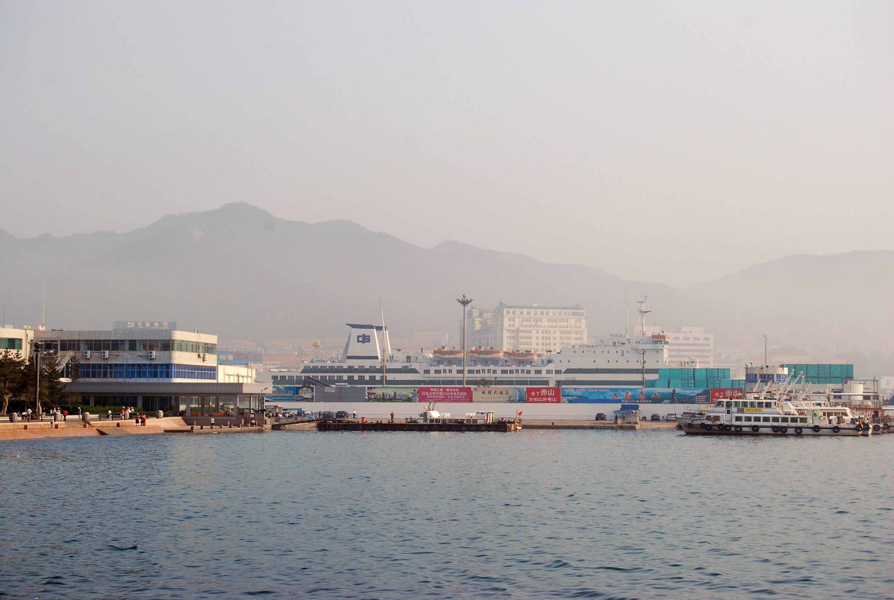 Harbour of Weihai,Shandong,China.